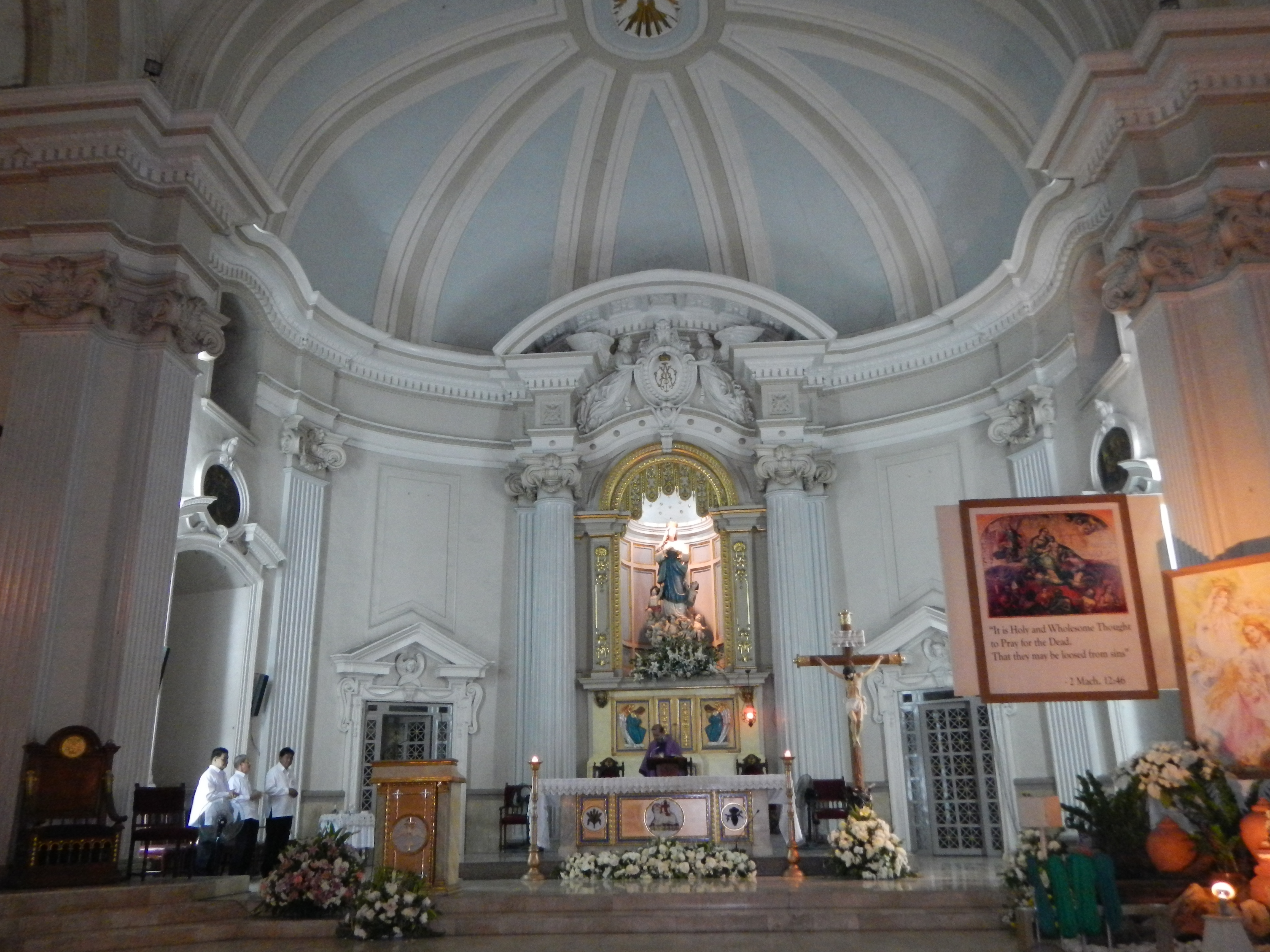 Metropolitan Cathedral of San Fernando[1] Roman Catholic Archdiocese of San Fernando